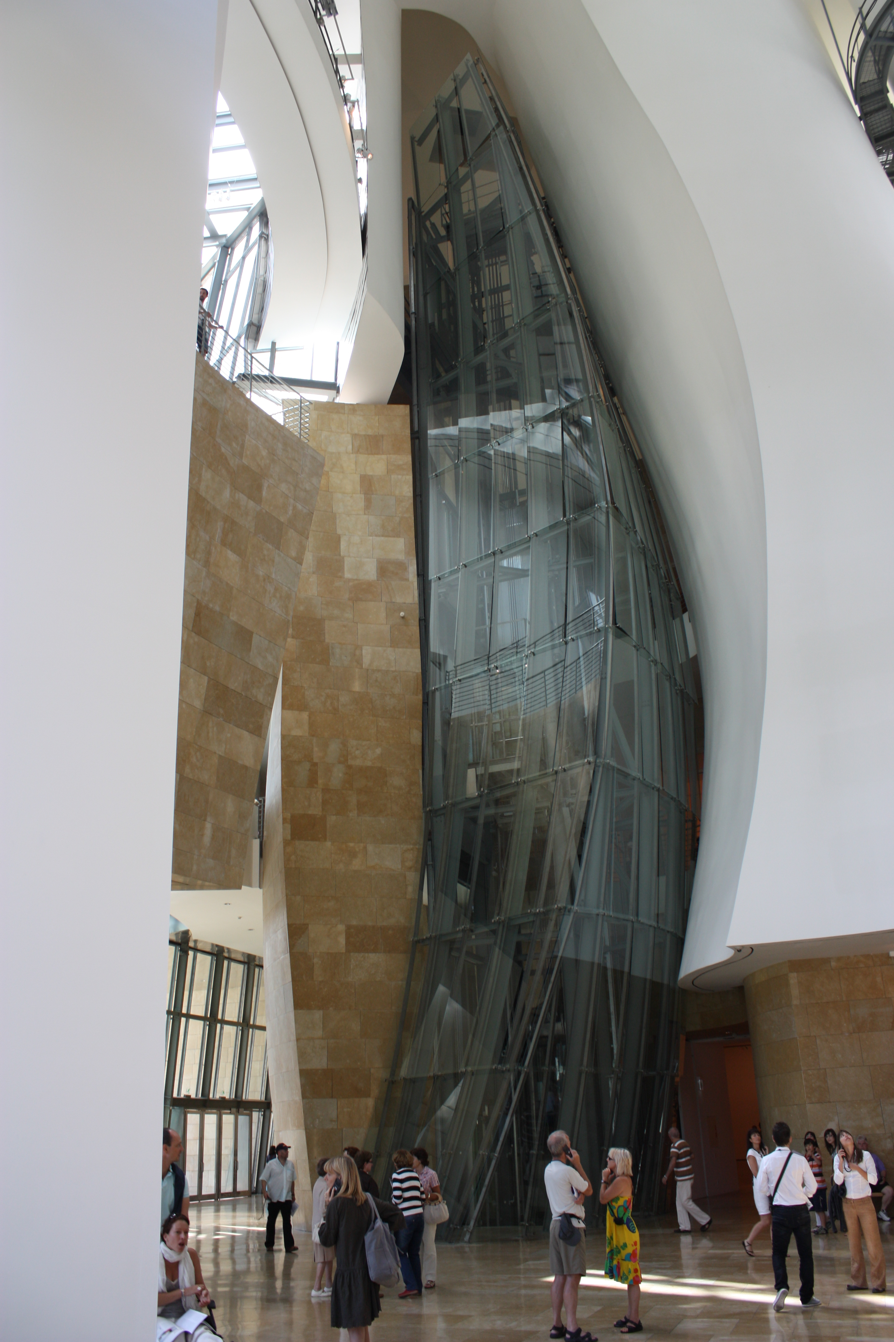 Guggenheim Museum interior, Bilbao, Biscay, Spain, July 2010